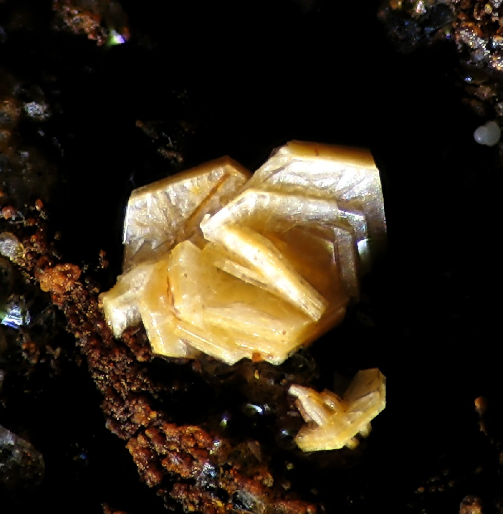 Synchysite Locality: Adra-Motril highway, Adra, Almería, Andalusia, Spain Picture width 2 mm. Collection and photograph Christian Rewitzer